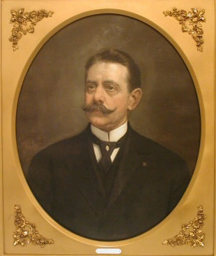 Portrait of Tennessee Governor John Isaac Cox by Lloyd Branson (1854–1925)